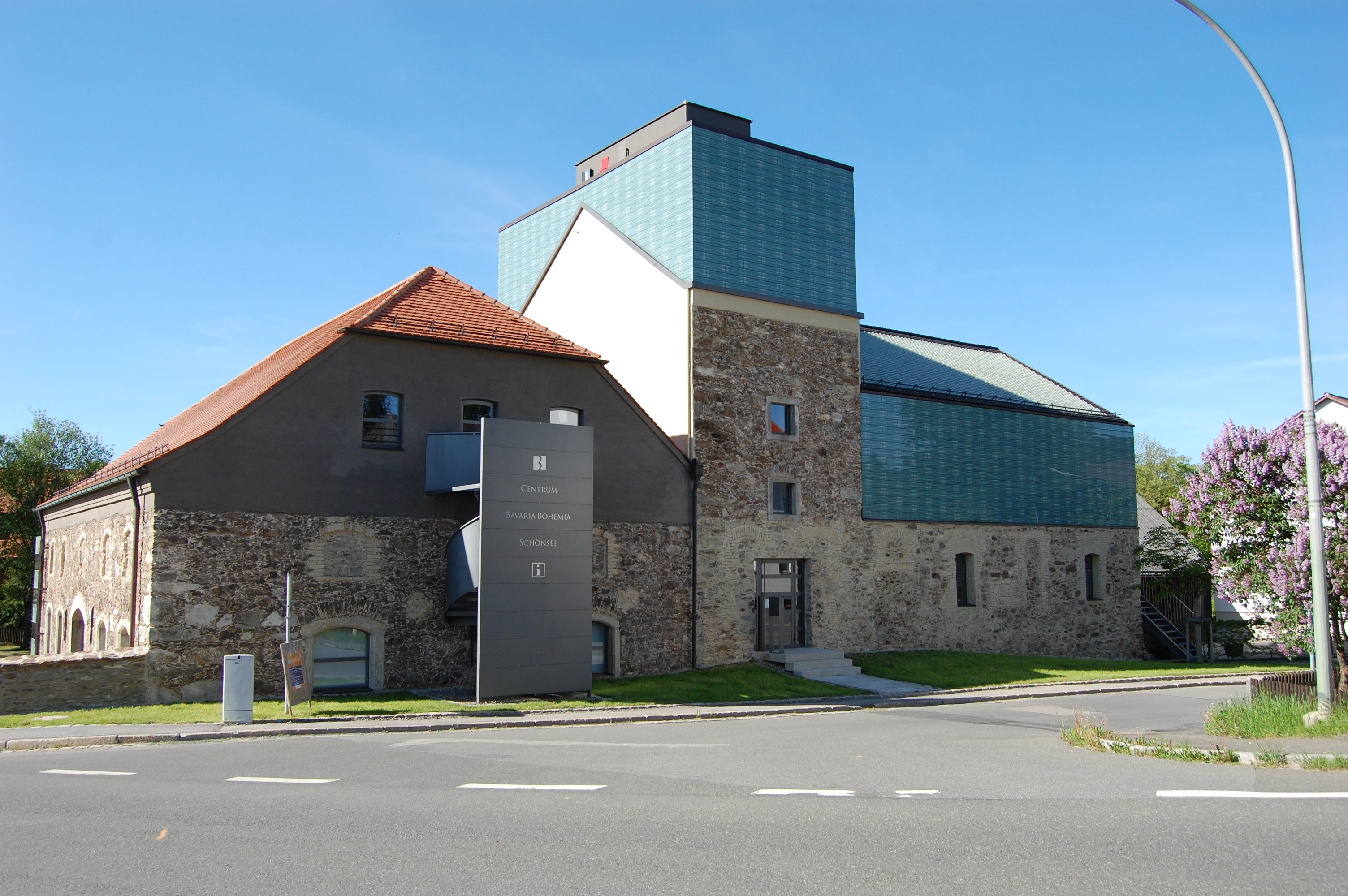 Town Schönsee, Centrum Bavaria Bohemia